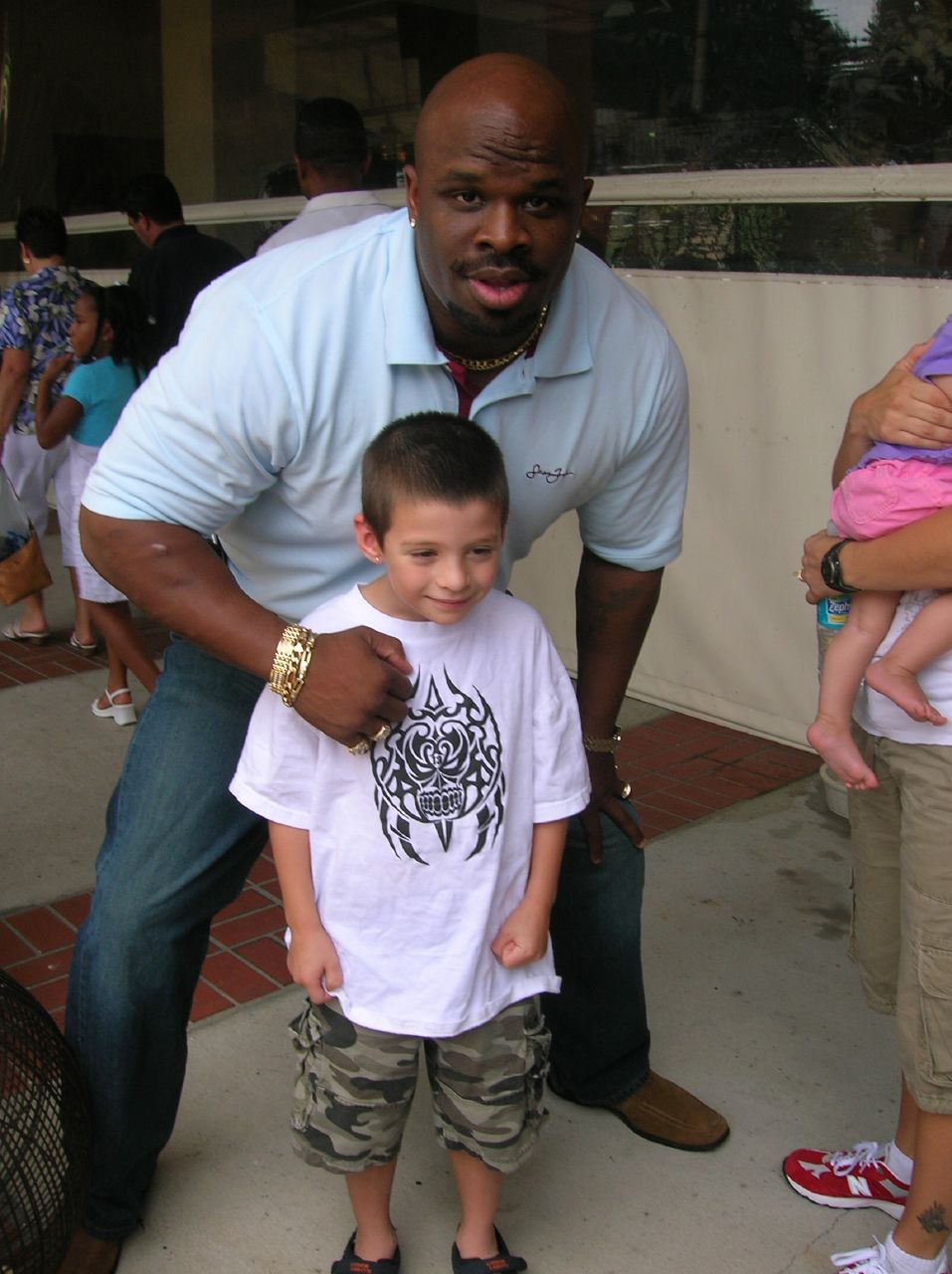 Devon posing with a fan.